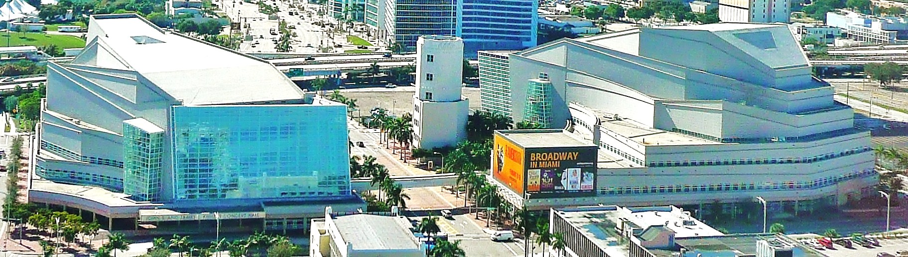 Digital photo taken by Marc Averette. Adrienne Arsht Center for the Performing Arts in Downtown Miami, Florida, United States.